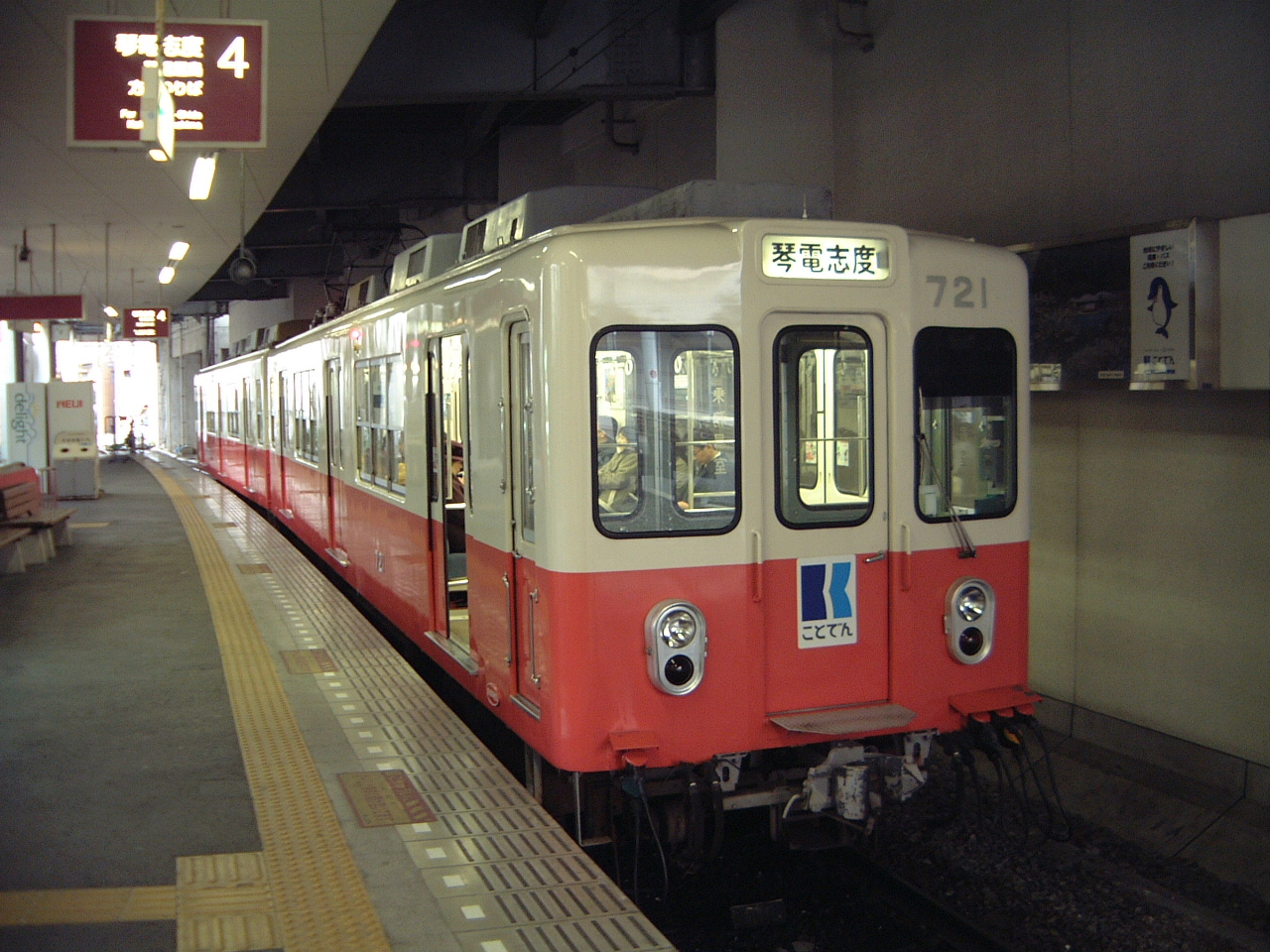 author:Fwng3431 Date:04/Jan/2006 Takamatsu-Kotohira Electric Railway Co.(Takamatsu,Japan) No.721 and 722 car Kawaramachi station 高松琴平電気鉄道 721号と722号による編成 瓦町駅にて撮影